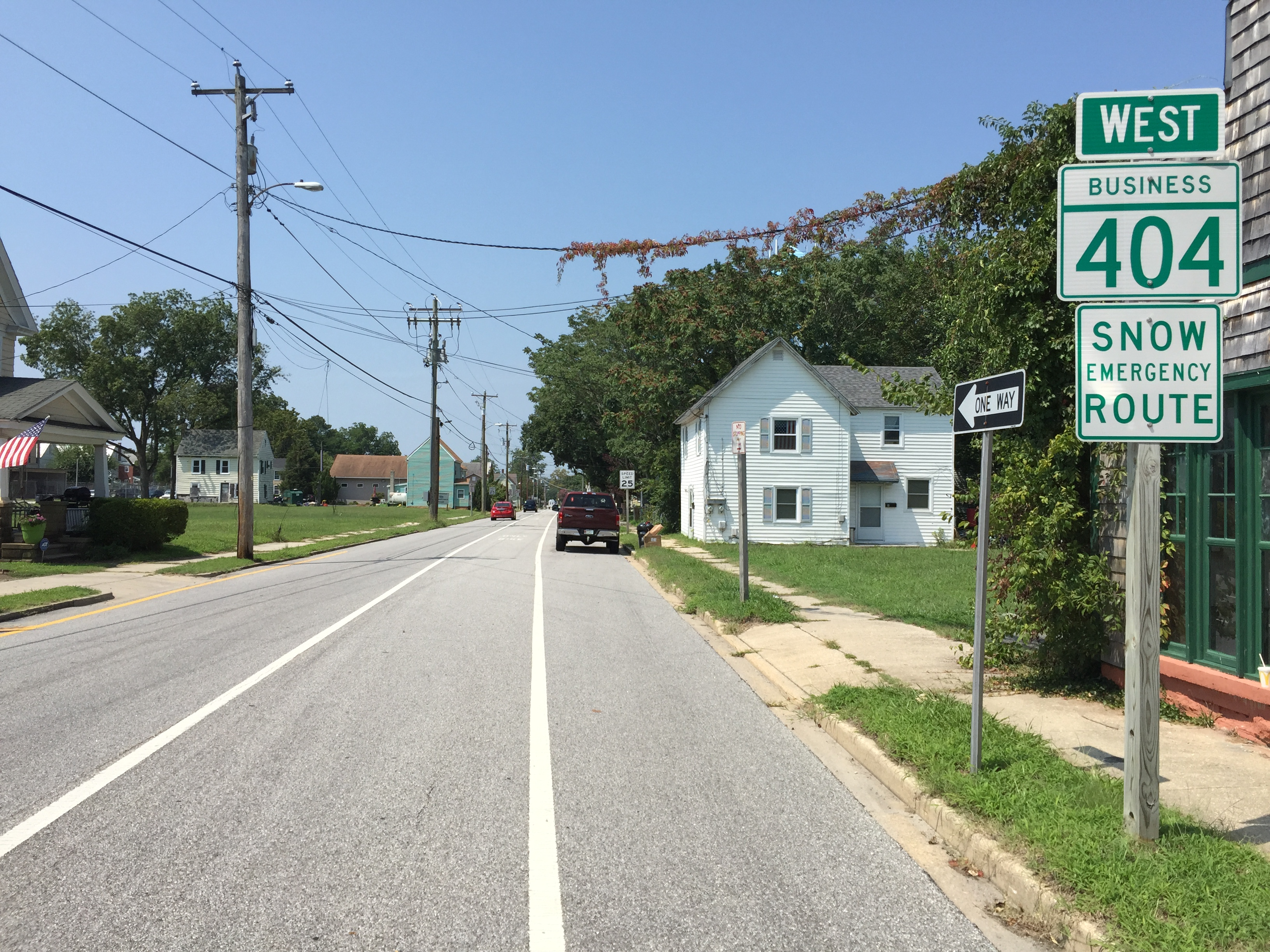 View west along Maryland State Route 404 Business (Gay Street) at Maryland State Route 619 (Sixth Street) in Denton, Caroline County, Maryland